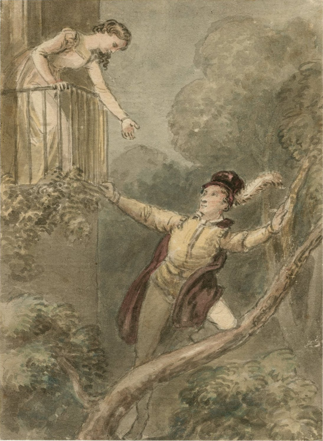 Watercolor of Act II Scene ii of Shakespeare's Romeo and Juliet.